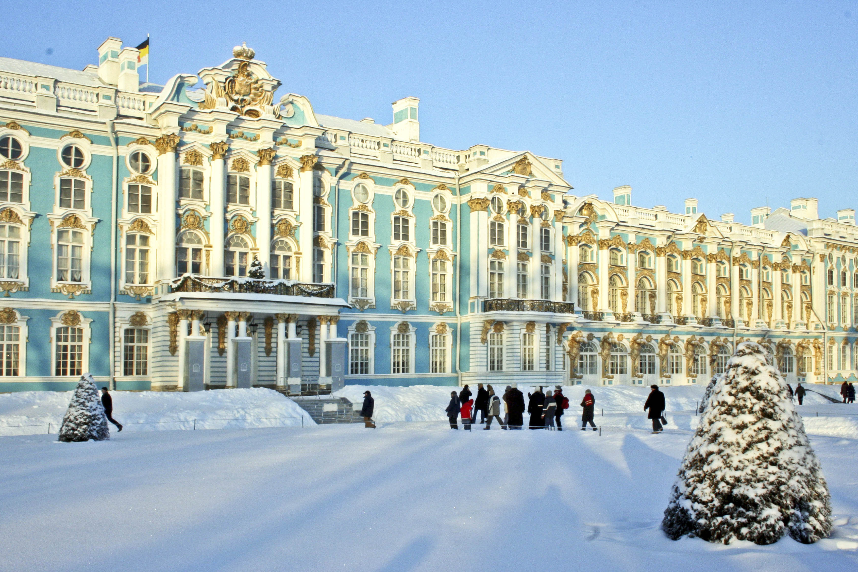 Pushkin (Russia), Catherine Palace